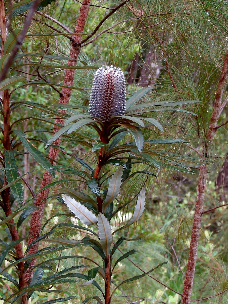 Banksia plagiocarpa flower spike in late bud, Hinchinbrook Island